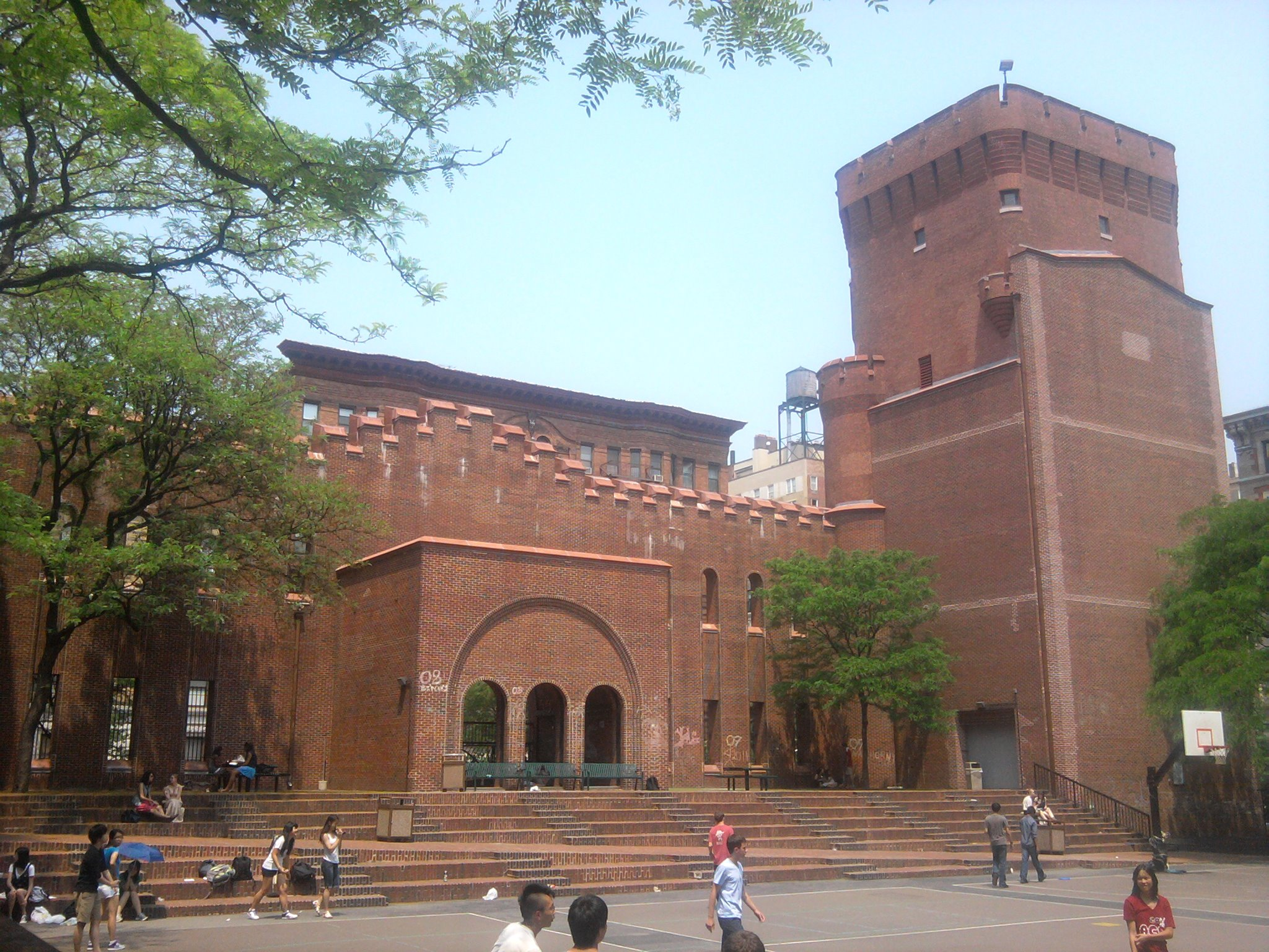 Looking northwest at east side of facade on a sunny day. This is the former interior of the building.